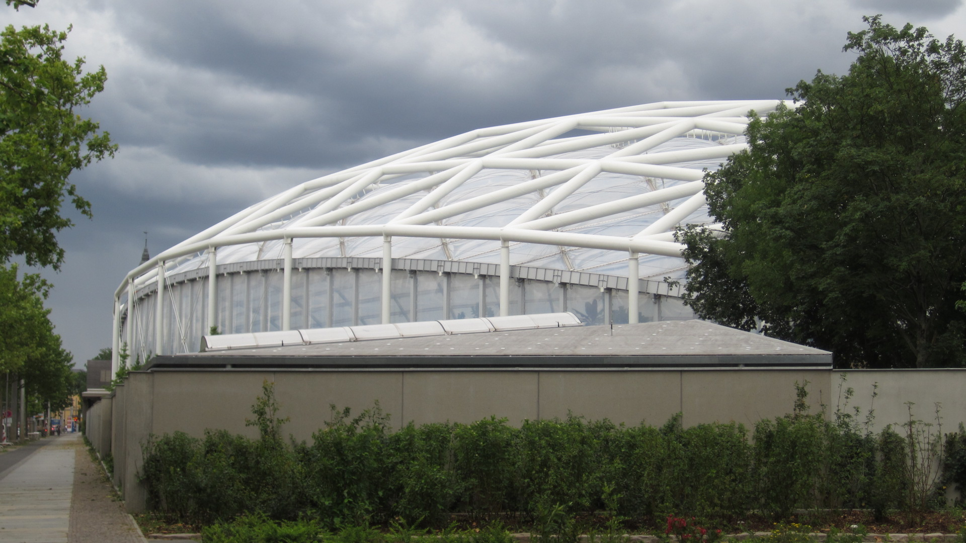 External view of Gondwanaland palm house at Leipzig Zoological Garden.